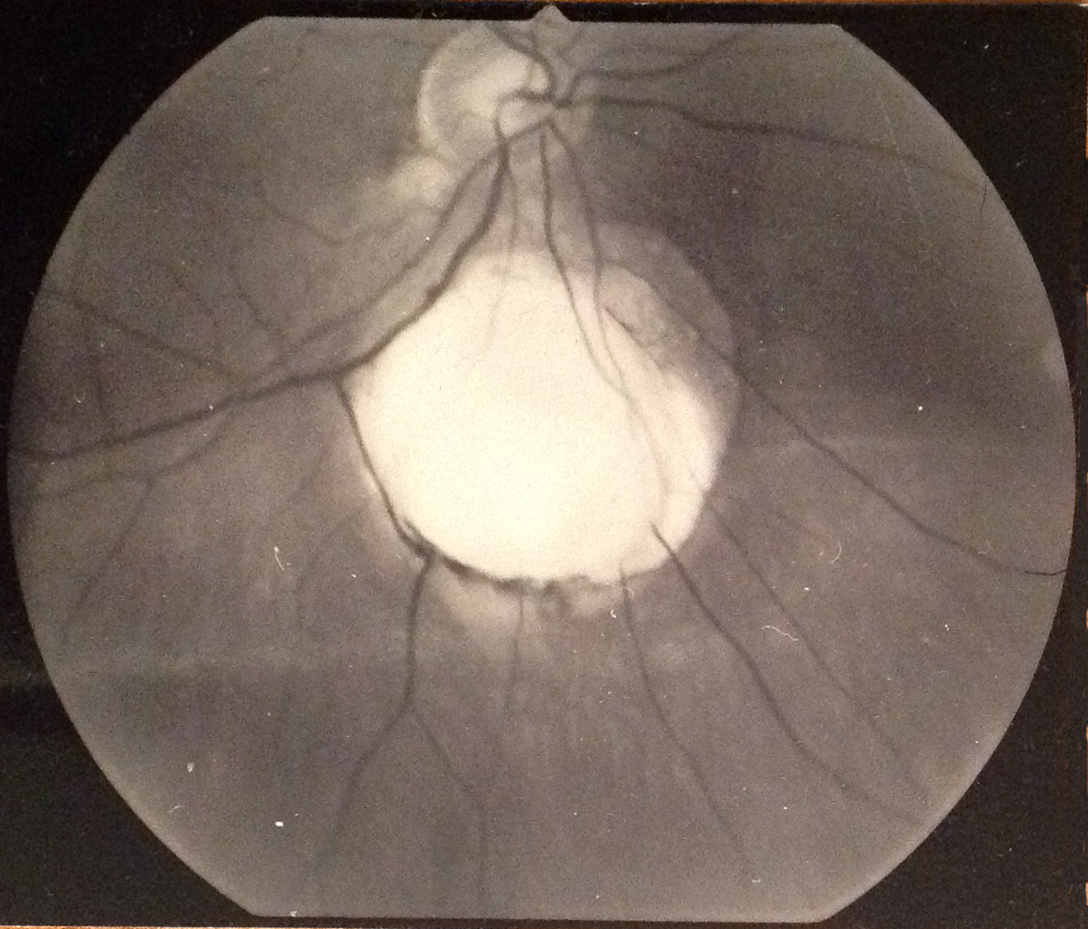 Posterior staphyloma Srpskohrvatski / српскохрватски: Stražnji stafilom